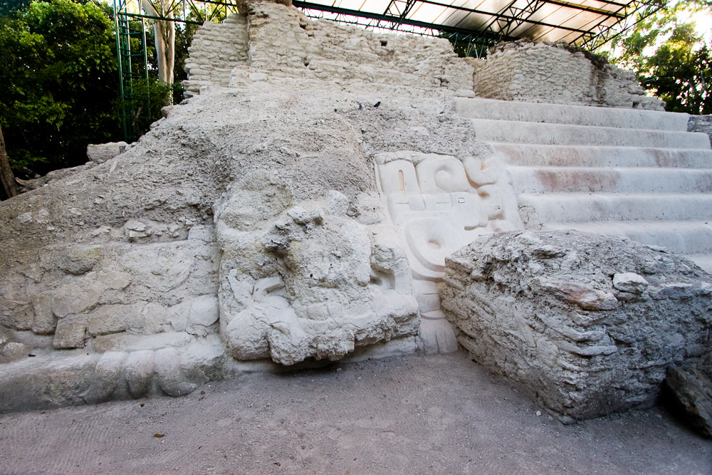 Jaguar Paw Temple (Structure 34), Mirador